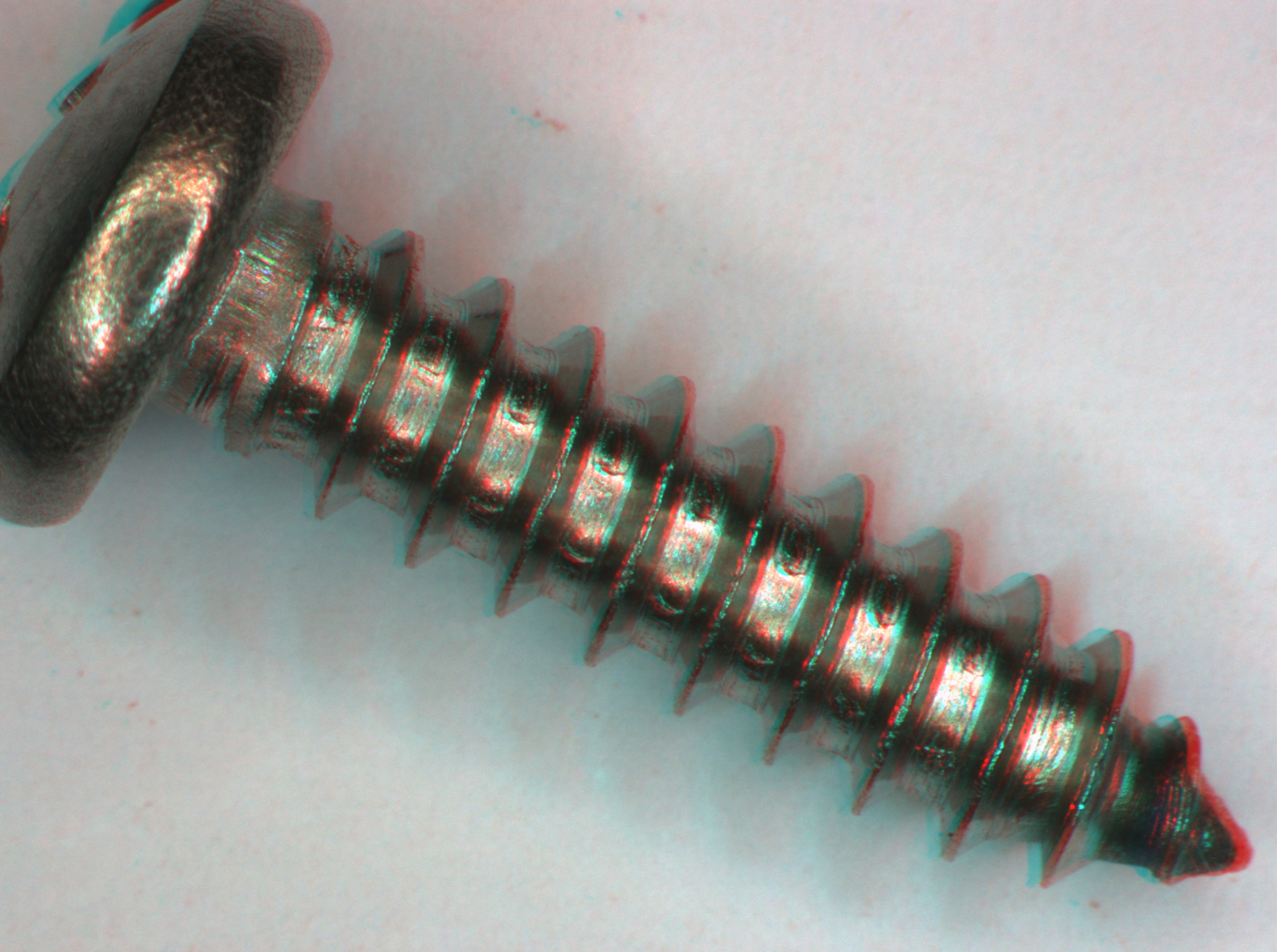 Anaglyph image of a screw head, taken with an Olympus SZX12 stereo microscope with a slidable objective revolver, magnification 3.5x